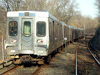 The Market-Frankford Line near Millbourne.